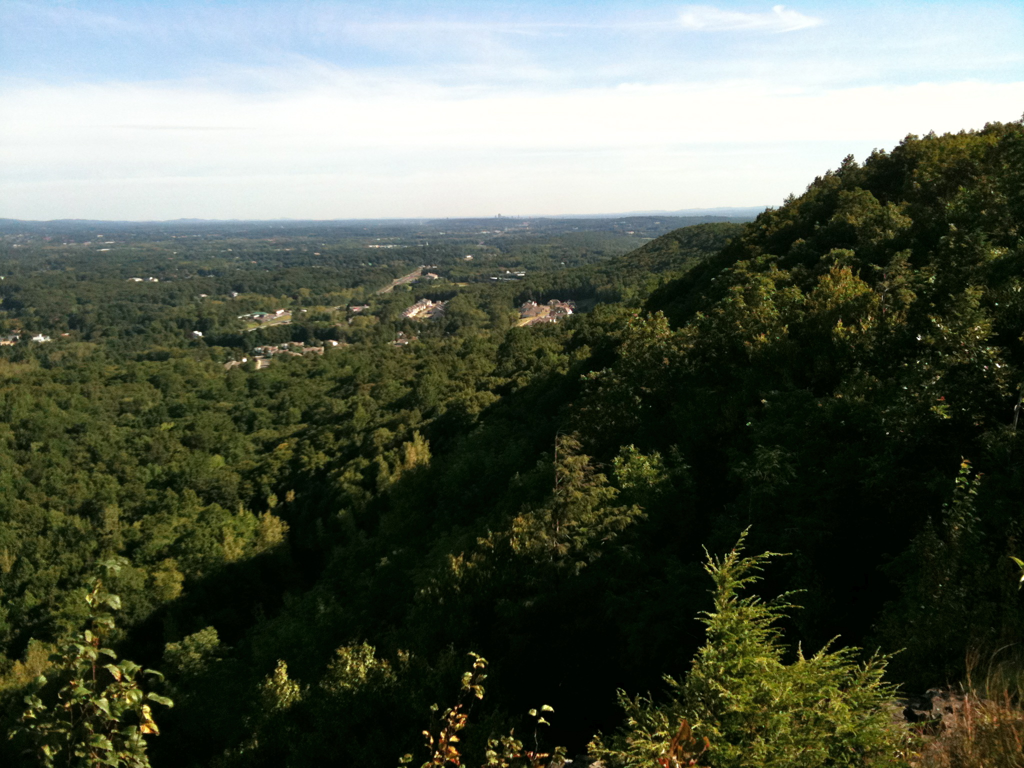 Mattabesett Blue-Blazed Trail. Lamentation Mountain looking north from Lamentation ridge line.